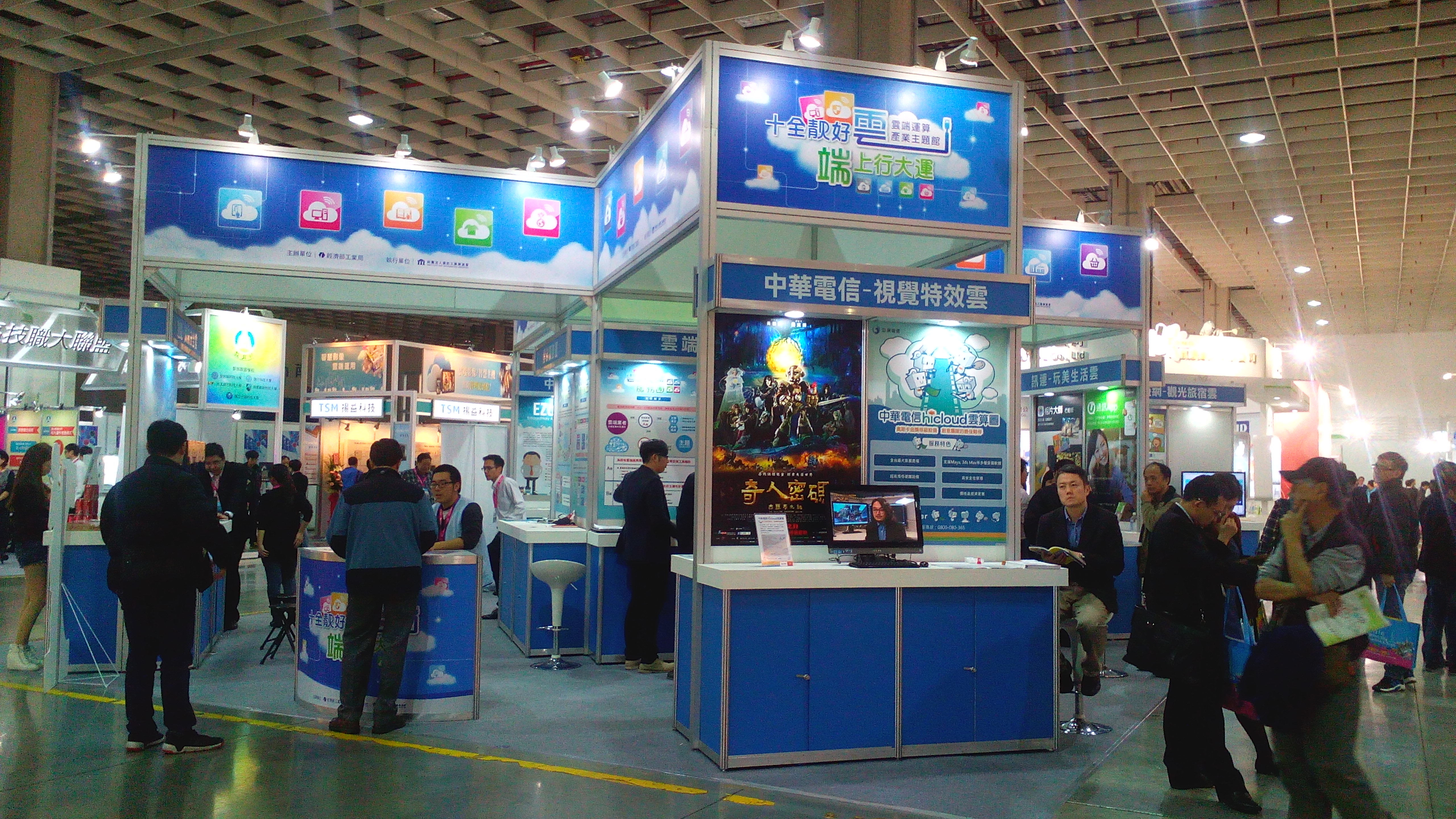 Smart City Expo 2015: Cloud Computing Pavilion.